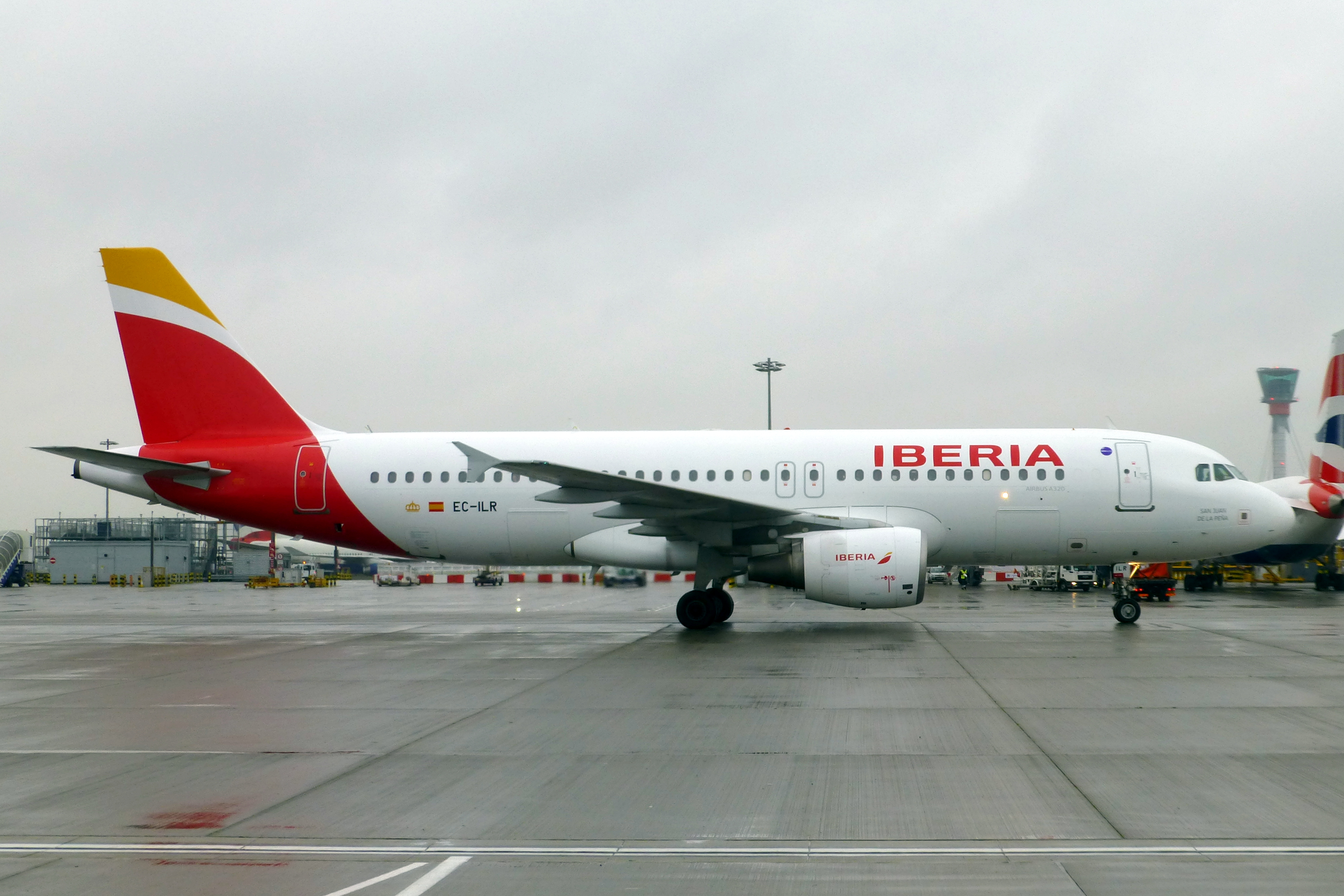 EC-ILR Airbus A320 Iberia in the company's new colours.